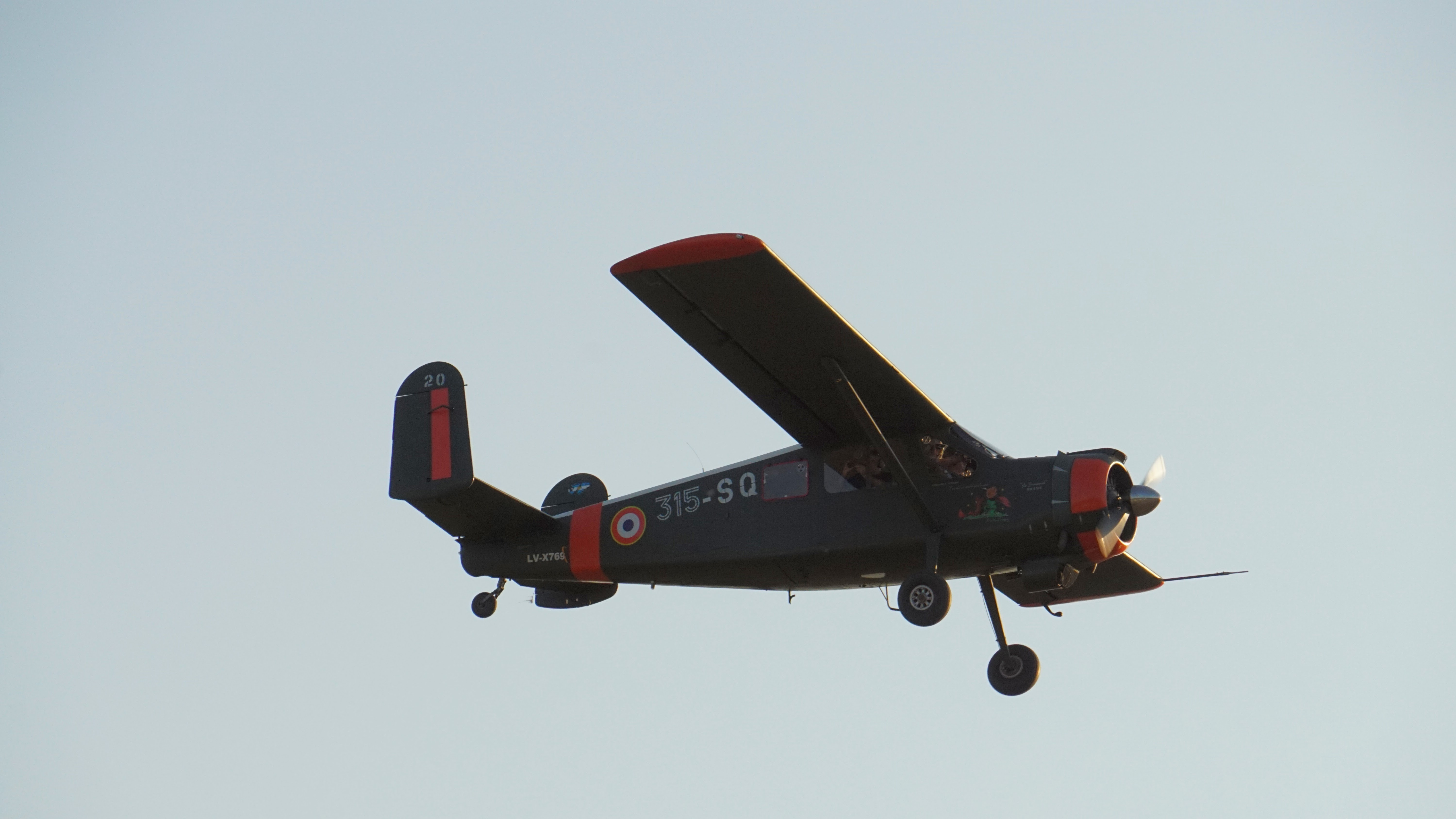 Max Holste LV-X769 seen at an EAA airshow in Argentina in 2020